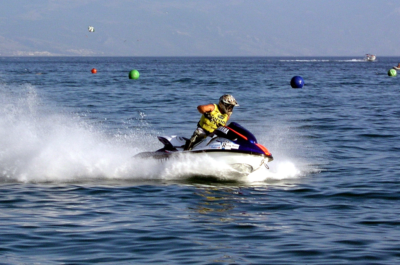 European Jet Ski Championship, Crikvenica, Croatia